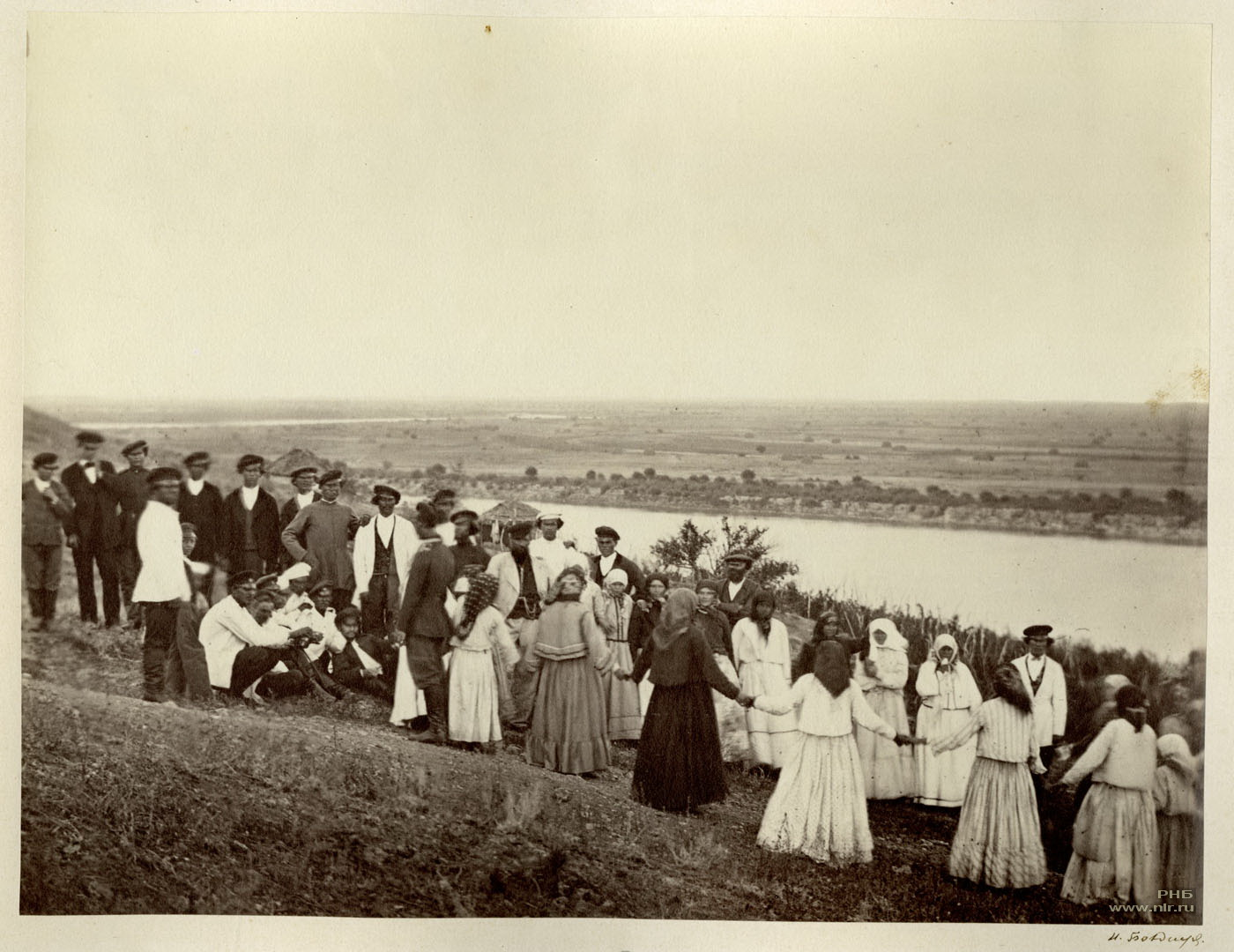 Sreet near grape gardens during the feast. Don Cossacks Host Oblast, Tsymlyanskaya village, 1875-1876. Russian Empire.